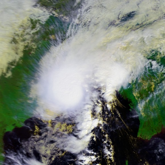 Tropical Cyclone 03B near peak intensity on November 12 at 0409 UTC. This image was produced from data from NOAA-17, provided by NOAA. Maximum sustained winds were between 40 to 65 mph at the time.